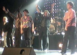 The hollies in concert mid, 2007